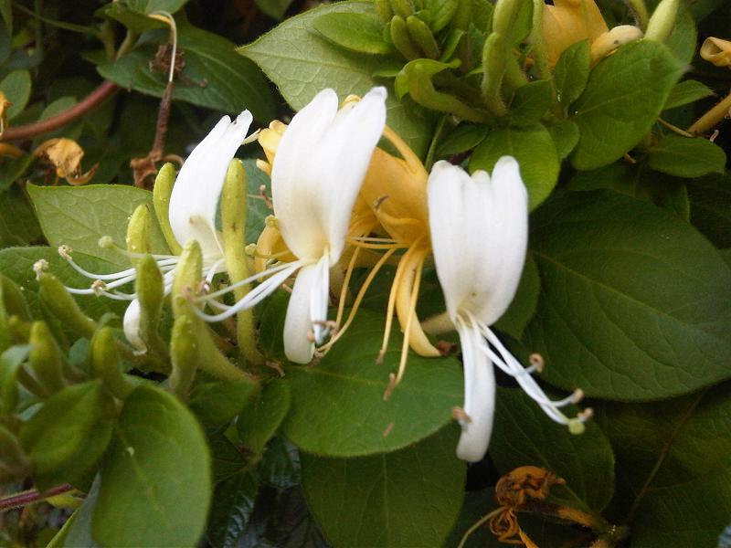 Japanese Honeysuckle (Lonicera japonica) flowers in London, England.